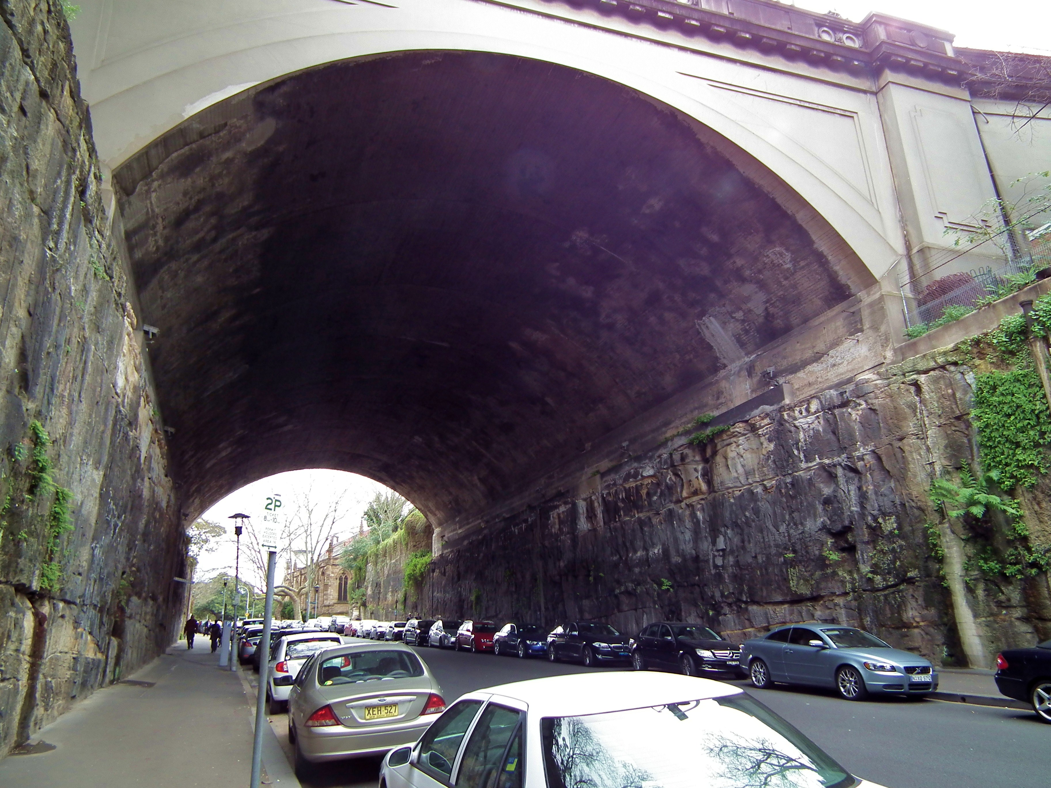 Argyle Cut - The Rocks, Sydney, New South Wales. Construction started in 1843 using convict labour, and was finally completed in 1859 using explosives and council labour. The Cut was made though a large sandstone outcrop that divided The Rocks from Miller's Point. The original bridge over Princes Street was demolished when the Cut was widened during construction of the Sydney Harbour Bridge approaches. Located on Argyle Street.